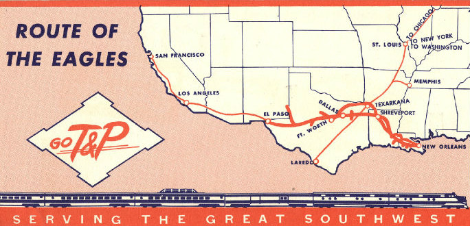 Depiction of a route map for Texas and Pacific Railway. The trains were designated as "Eagles"--Texas Eagle, etc. This depiction comes from the back of a railroad ticket for the line.